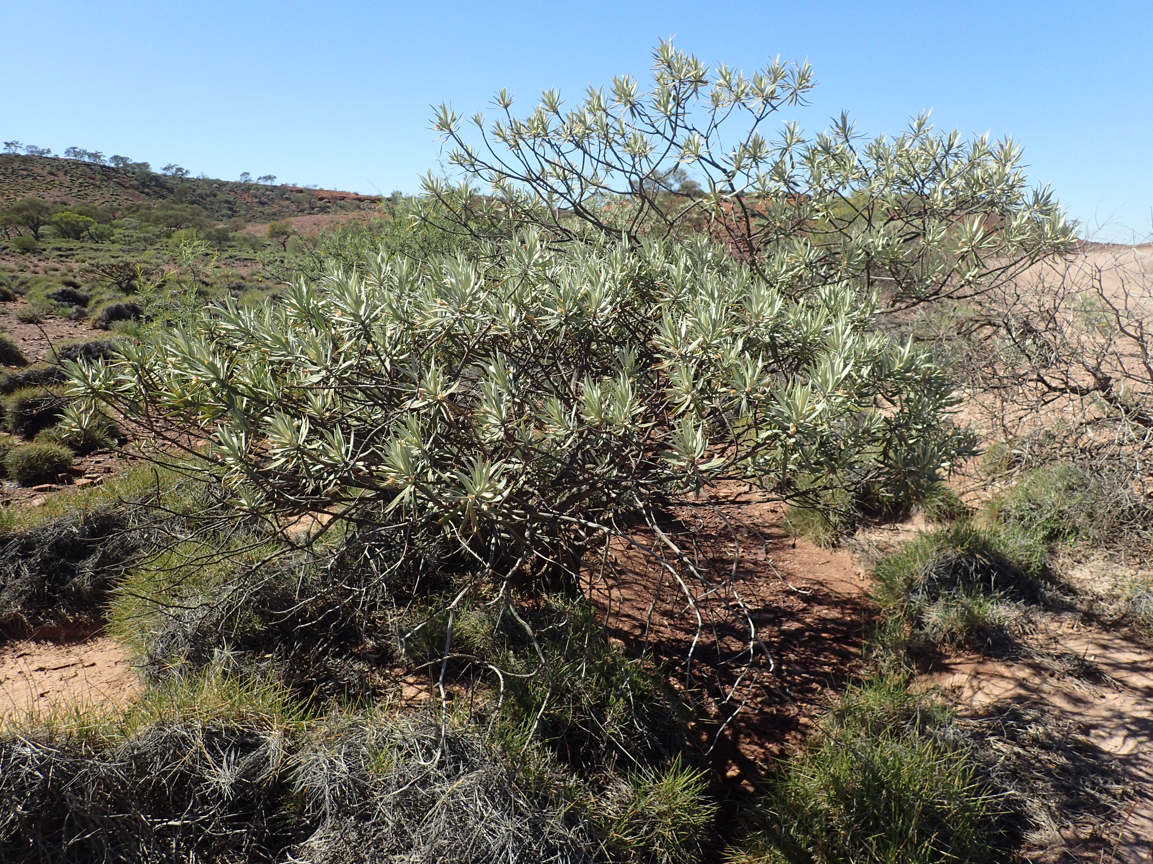 Eremophila rigens growing 23km east of "Pingandy"